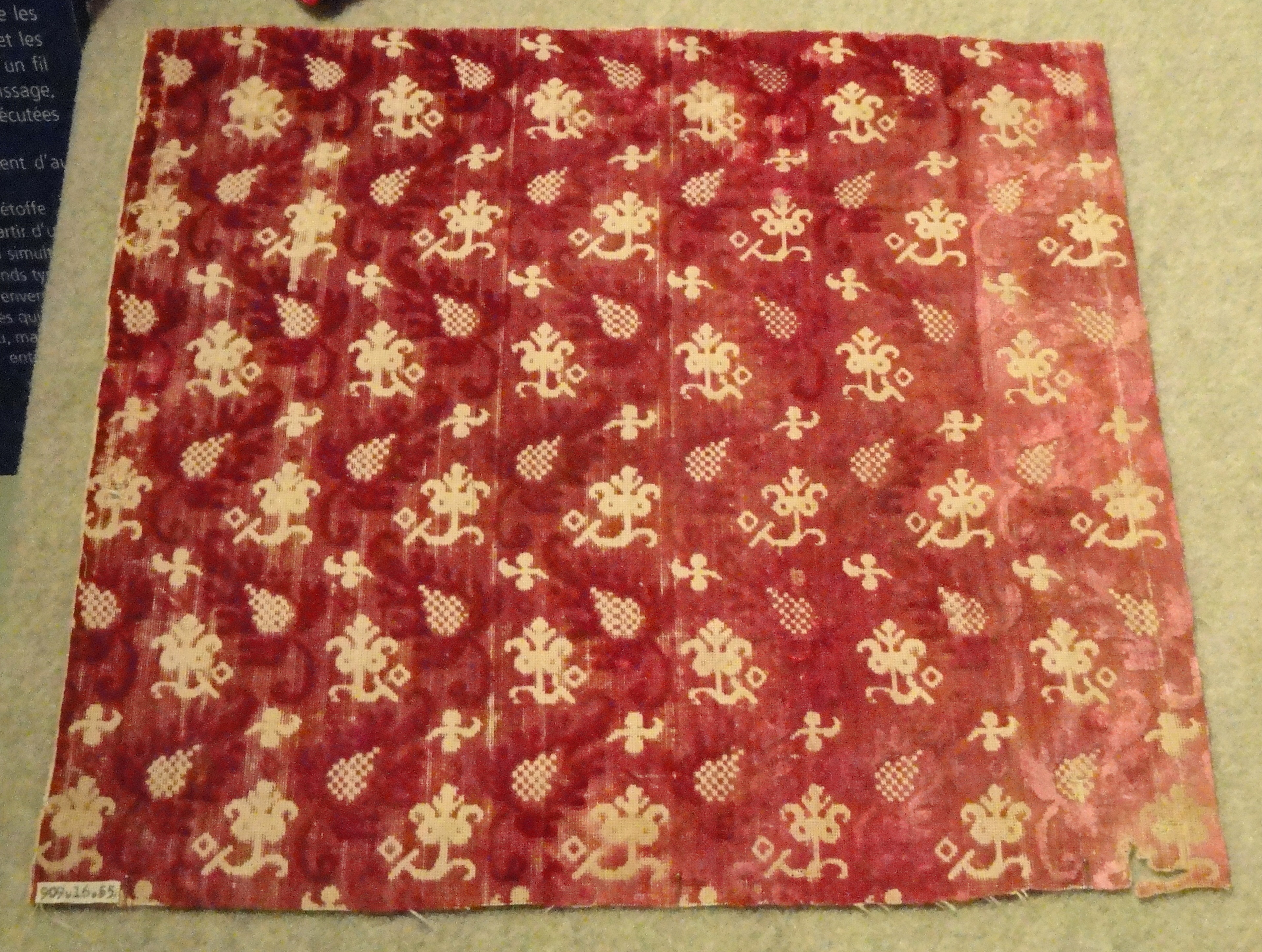 Exhibit in the Patricia Harris Gallery of Textiles & Costume, Royal Ontario Museum, Toronto, Ontario, Canada. This exhibit is old enough so that it is in the public domain, and photography was permitted in the museum. I took this photograph and release it into the public domain.